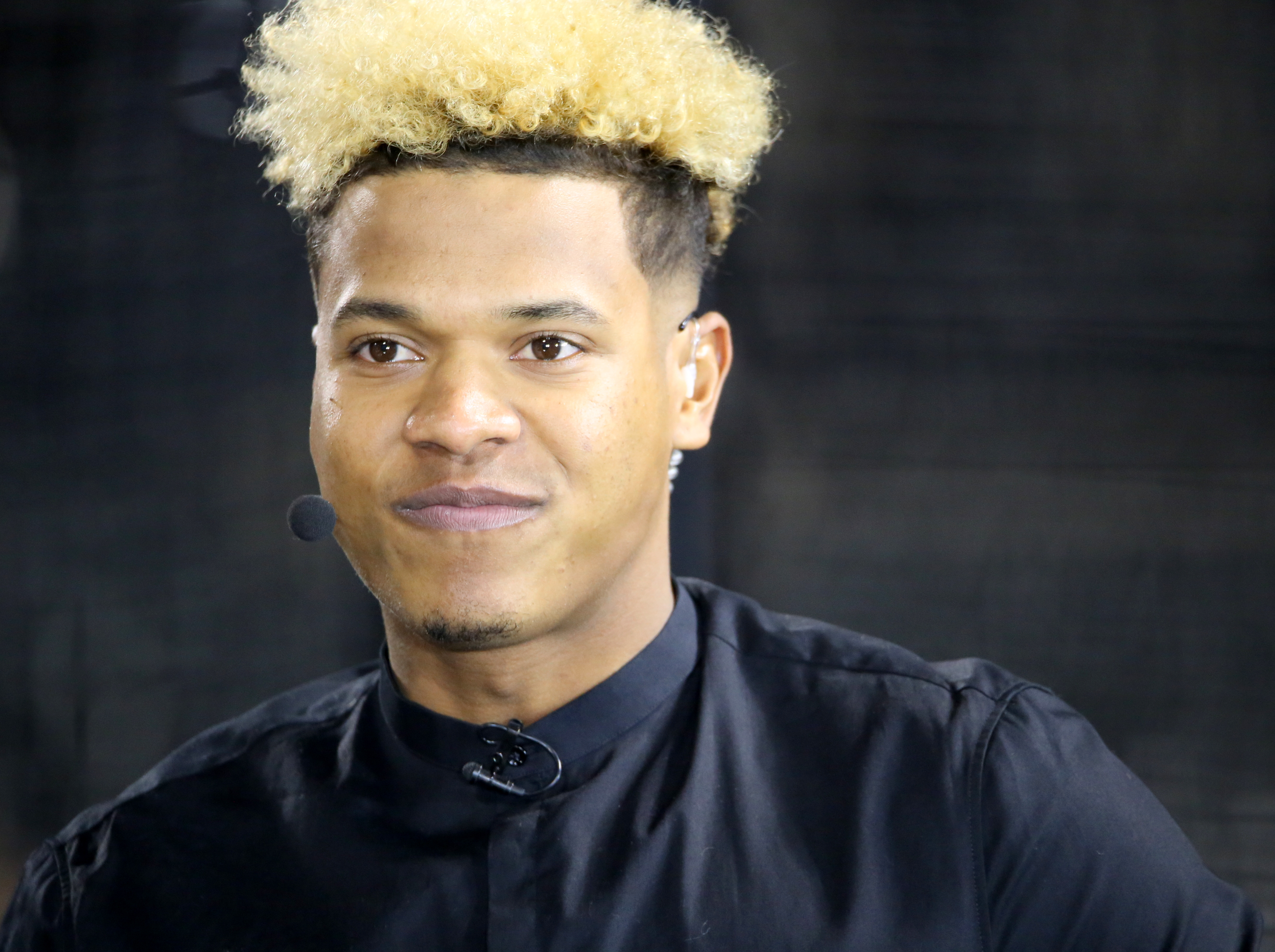 Marcus Stroman does an MLB Network segment.